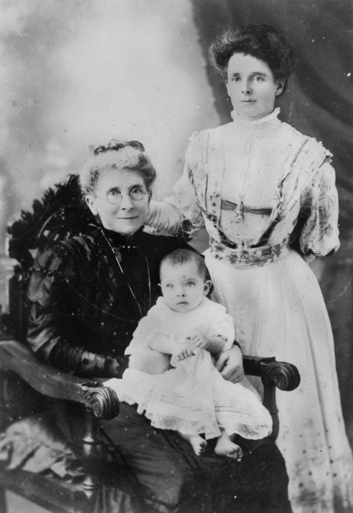 Portrait of the Rankin family, 1908. Portrait of three generations of the Rankin family. Mrs James Thomson (Dame Annabelle's grandmother), Mrs C.D.W. Rankin (Dame Annabelle's mother) and baby Annabelle Jane Mary Rankin. The Honourable Dame Annabelle Jane Mary Rankin was born in Brisbane in 1908 and was the first women to enter federal Parliament in 1947. She went on to become the Australian High Commissioner to New Zealand in 1971-1974. (Information taken from A, Lofthouse, Who's who of Australian women, 1982).